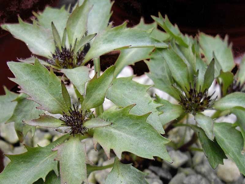 Physoplexis comosa